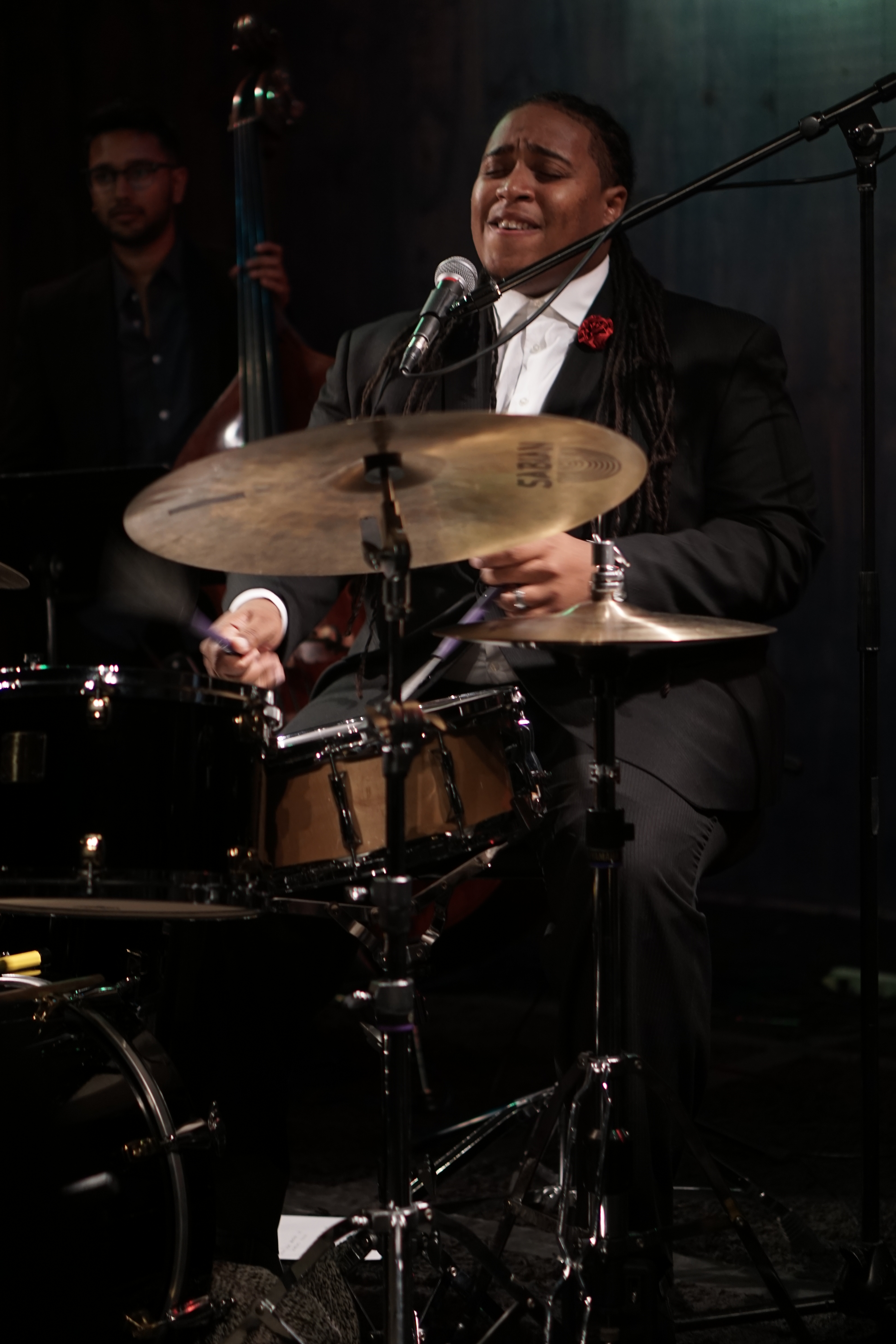 Jazz drummer and vocalist Jamison Ross.